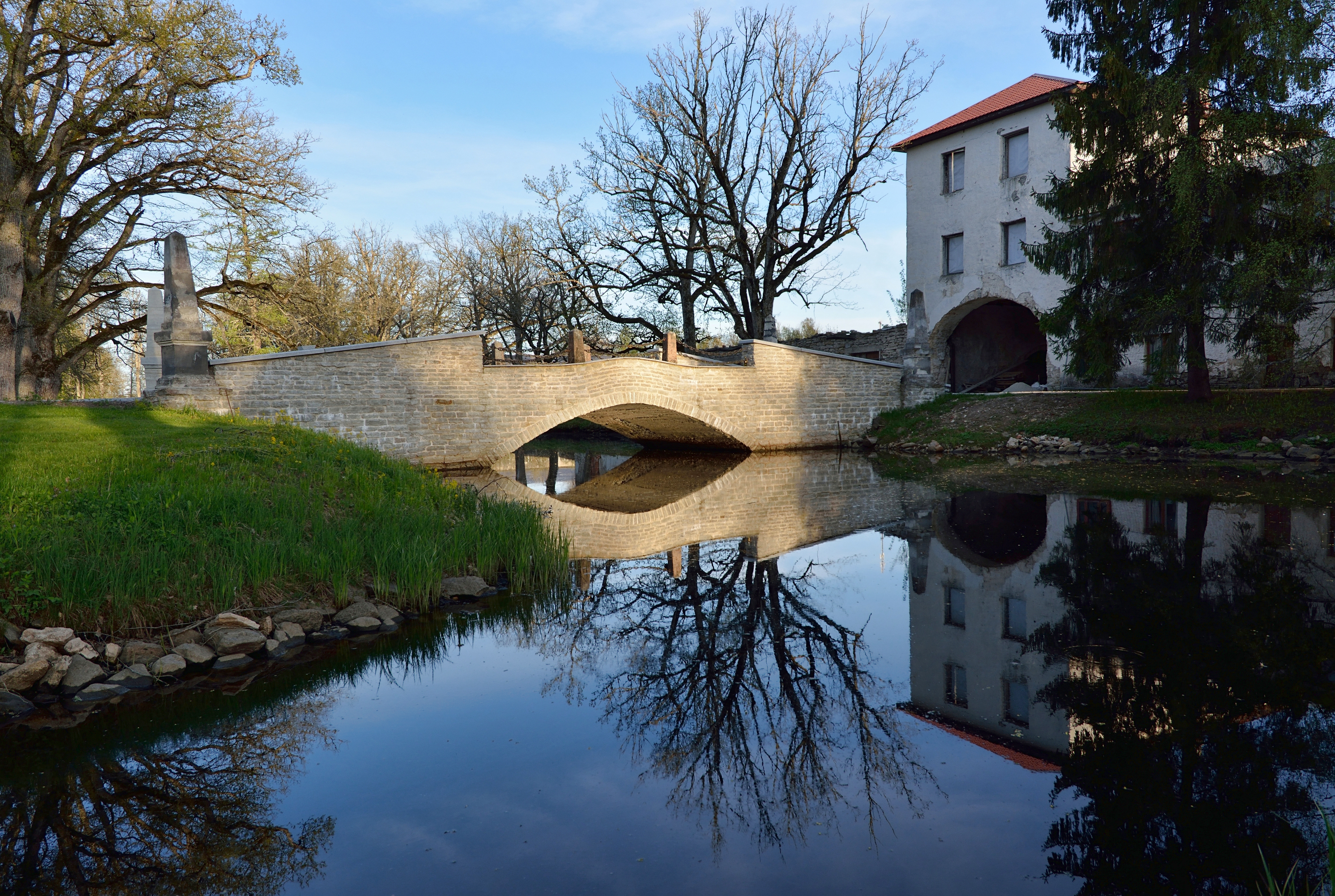 Koluvere manor stone bridge, built in the first half of the 19th century.